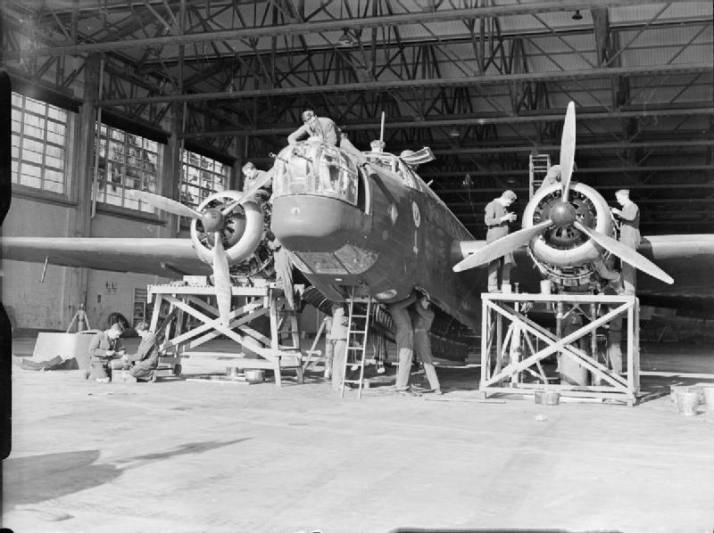 Maintenance staff overhaul damaged Vickers Wellington Mark IC, T2470 'BU-K', of No. 214 Squadron RAF, in a C-type hangar at RAF Stradishall, Suffolk.